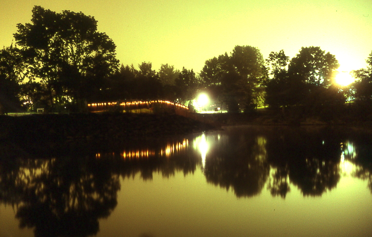 lake nityananda, fallsburg, ny, photo by Sardaka 03:00, 13 July 2007 (UTC)